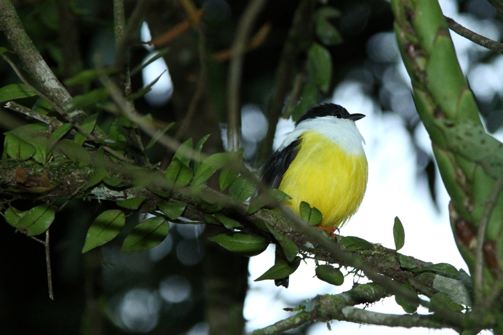 A male White-collared Manakin near La Selva Biological Station, Costa Rica.